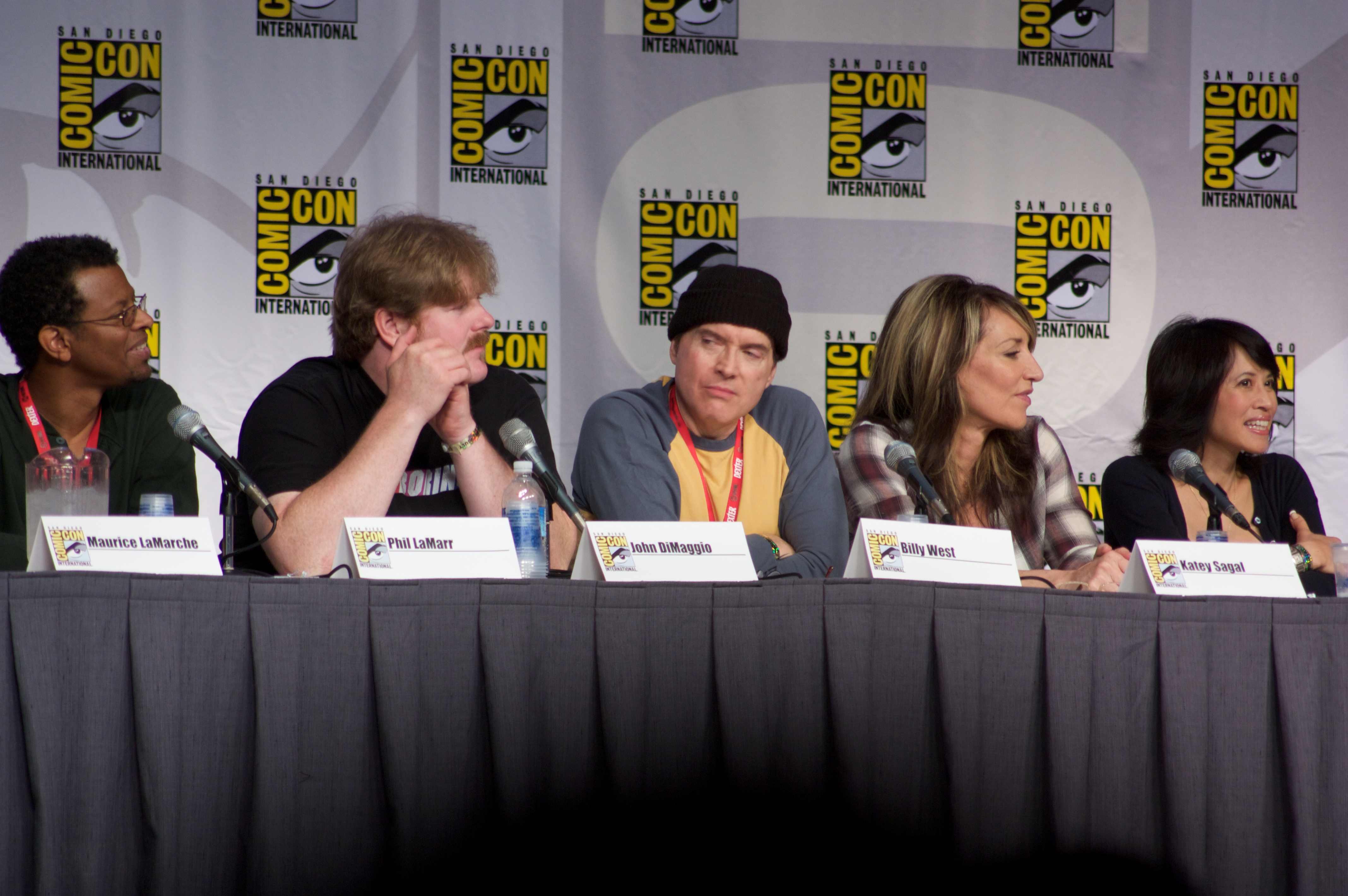 "Futurama" Panel. Actors Phil LaMarr, John DiMaggio, Billy West, Katey Sagal and Lauren Tom at San Diego 2010 Comic-Con International.